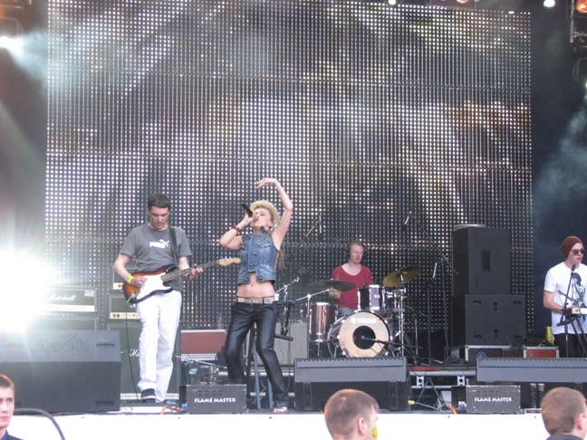 Stereolizza band performing live during djuice festival, Kiev, Ukraine